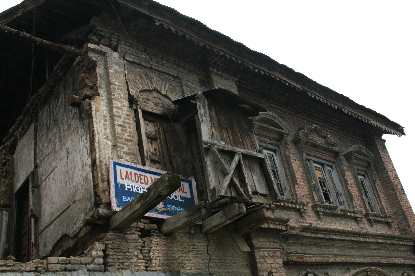 Lal Ded School view from road. Damaged Building